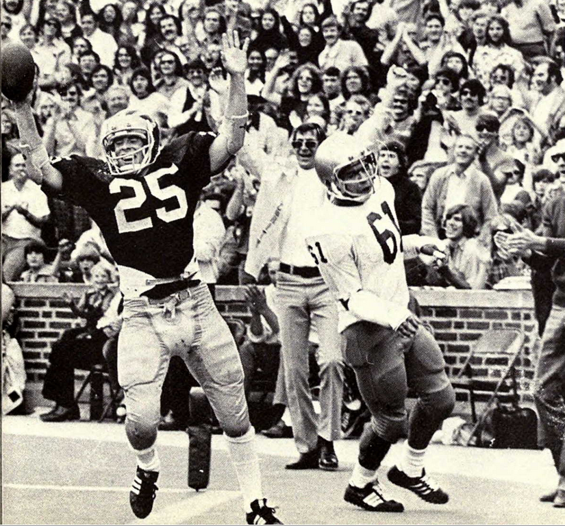 Photograph of Rob Lytle